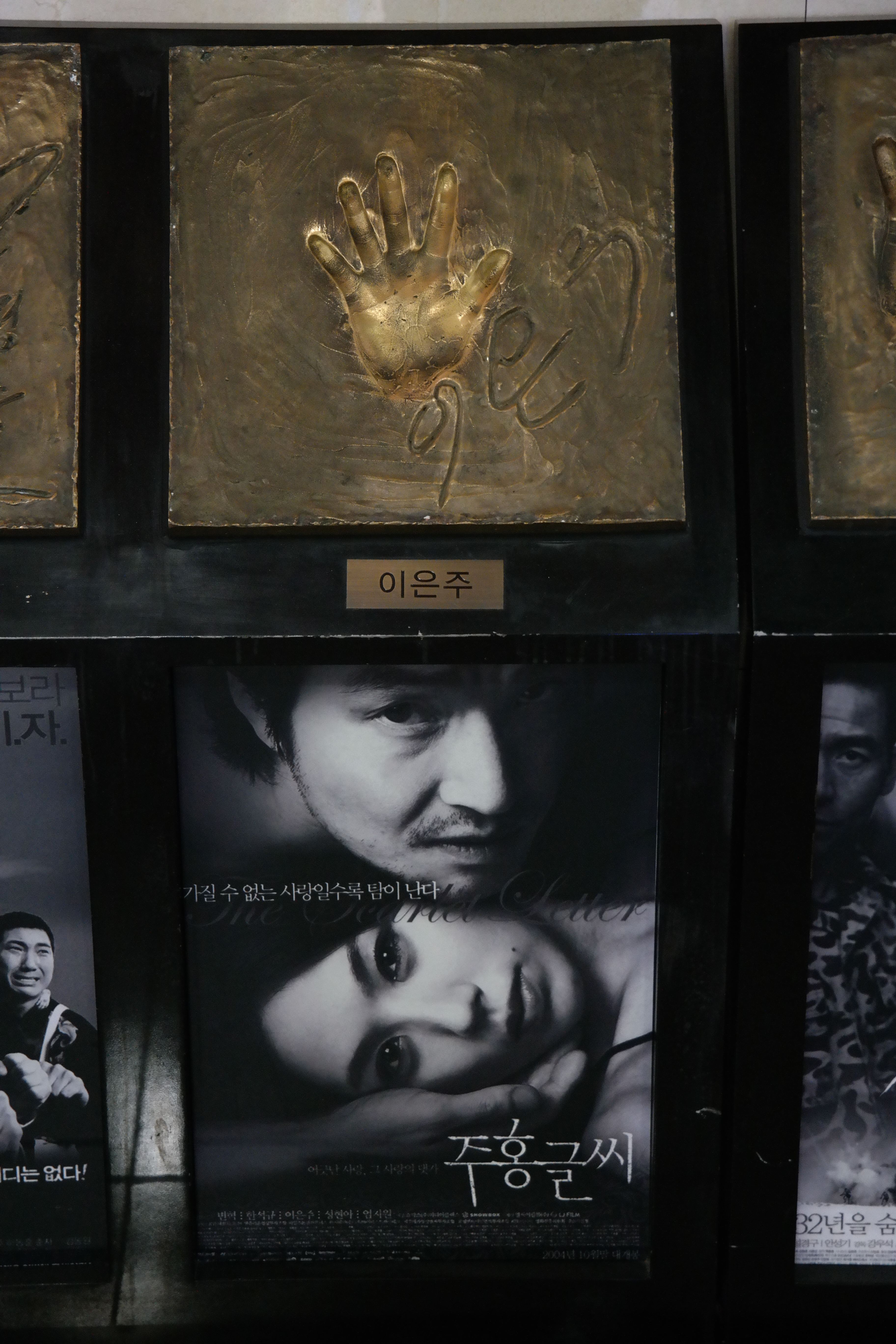 Lee Eun-ju's handprint and signature.